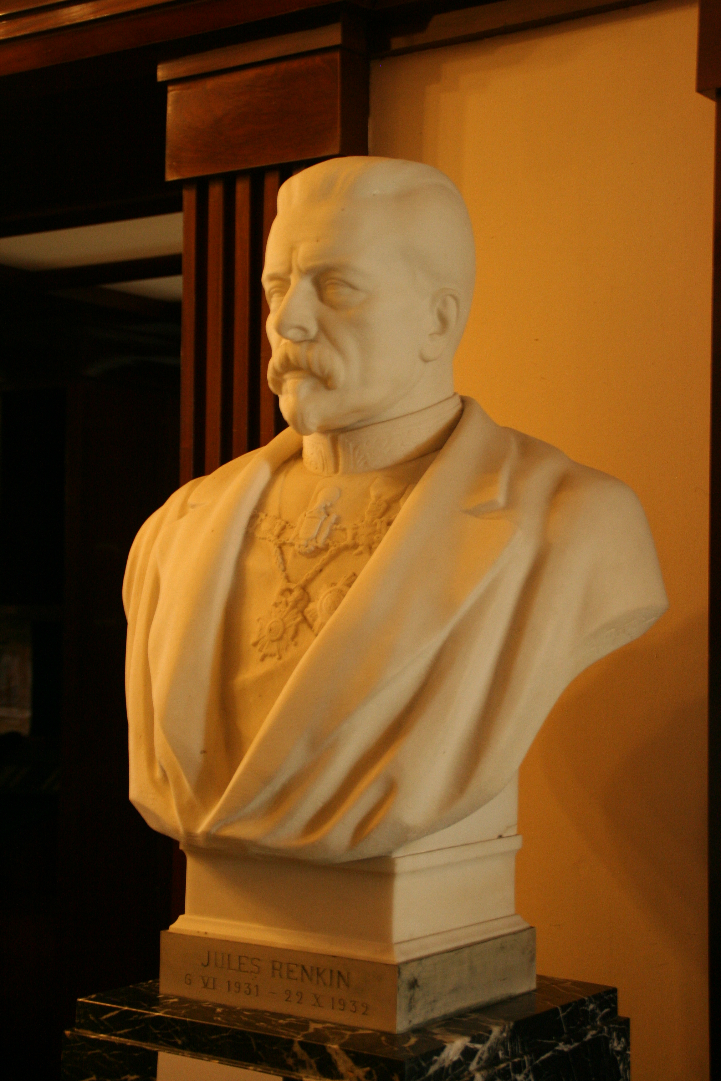 Bust of Jules Renkin in the Palais de la Nation in Brussels, Belgium.